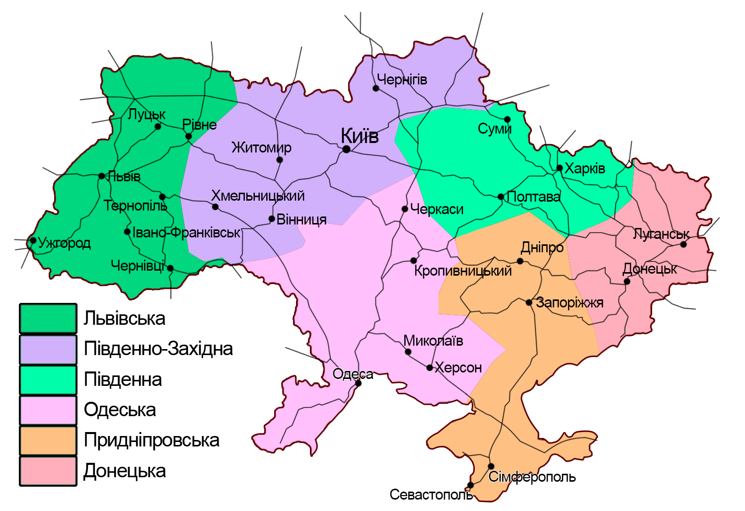 Subdivisions of Ukrainian Railways (in Ukrainian).